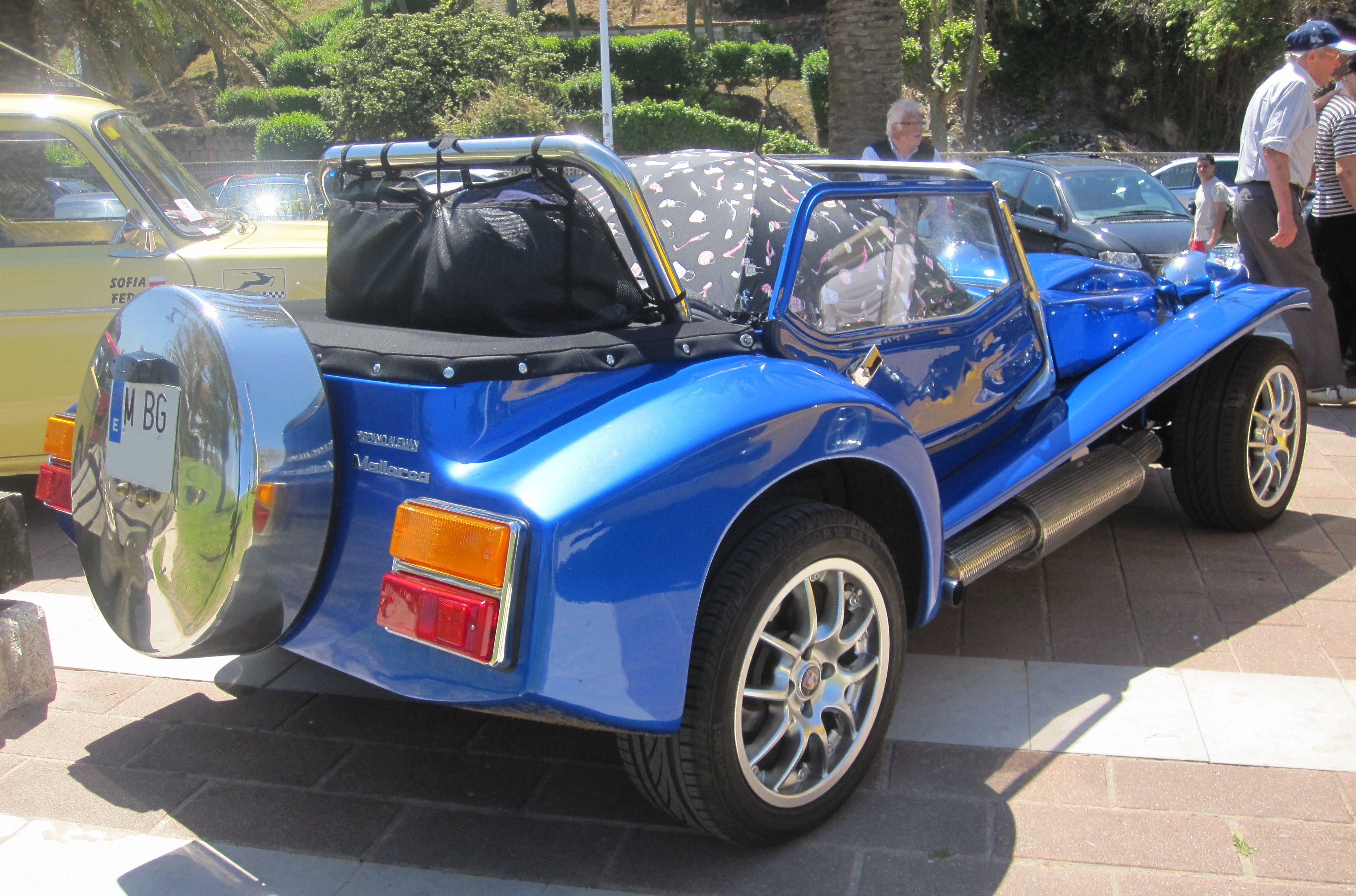 At last! Been wanting to see one fo these ever since I saw one in a Spanish film. I was happy to finally see one in person, the Mallorca was a Lotus Seven based replica made between 1971 and 1976. Something I didn't know is that this brand also built replicas of other cars like the Castilla (Lotus Europa), Vizcaya (Porsche 914 and not 944 like English wIkipedia claims) and Valencia (a Mallorca with a 1300 cc Ford Fiesta engine). Apparently, it also made replicas of the BMW 328. This one had 1976 plates of Madrid, which means it would be one of the latests models, was seen in Suances (Cantabria).